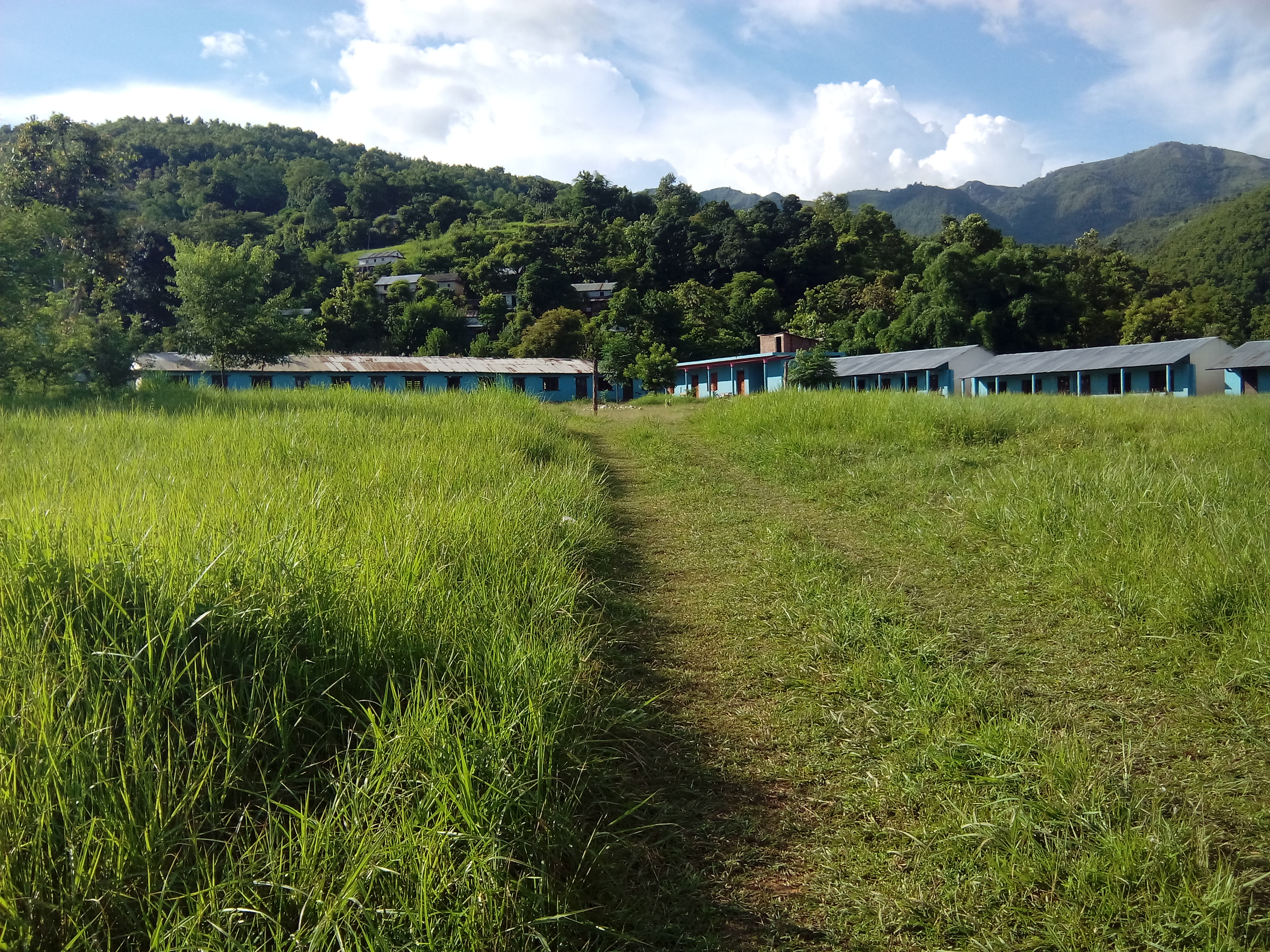 The School, the scenery around and the school playground.